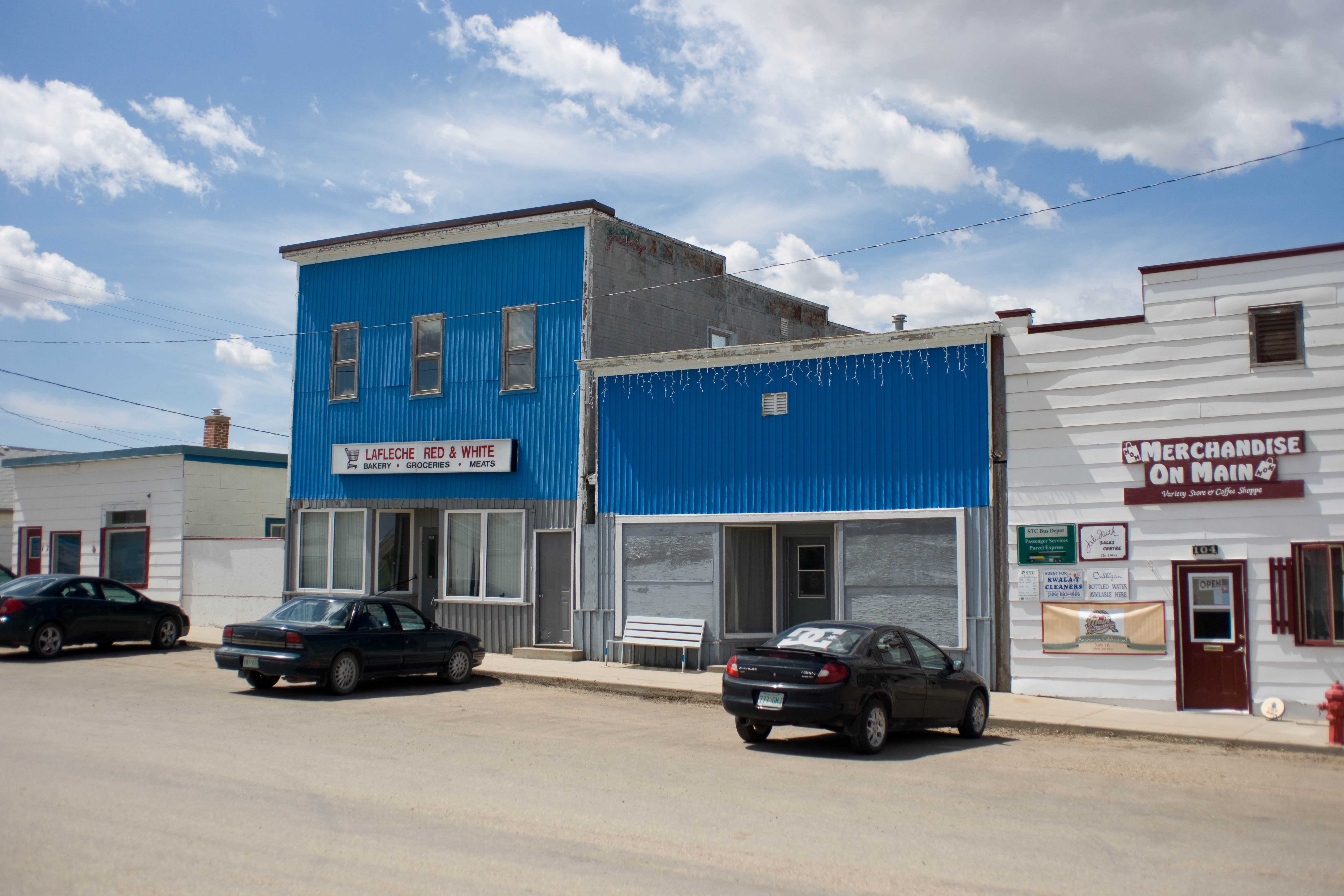 Businesses on the main street in the town of Lafleche, Saskatchewan, Canada. From